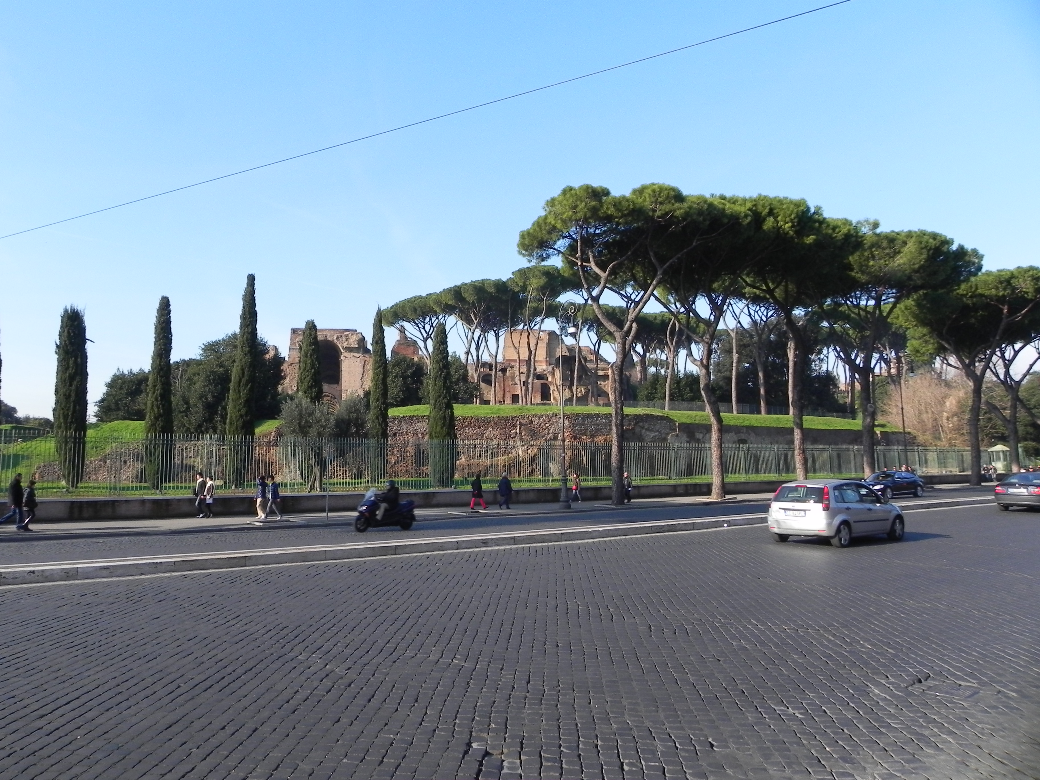 The Septizodium, view from Via di San Gregorio - Patrick Nouhailler